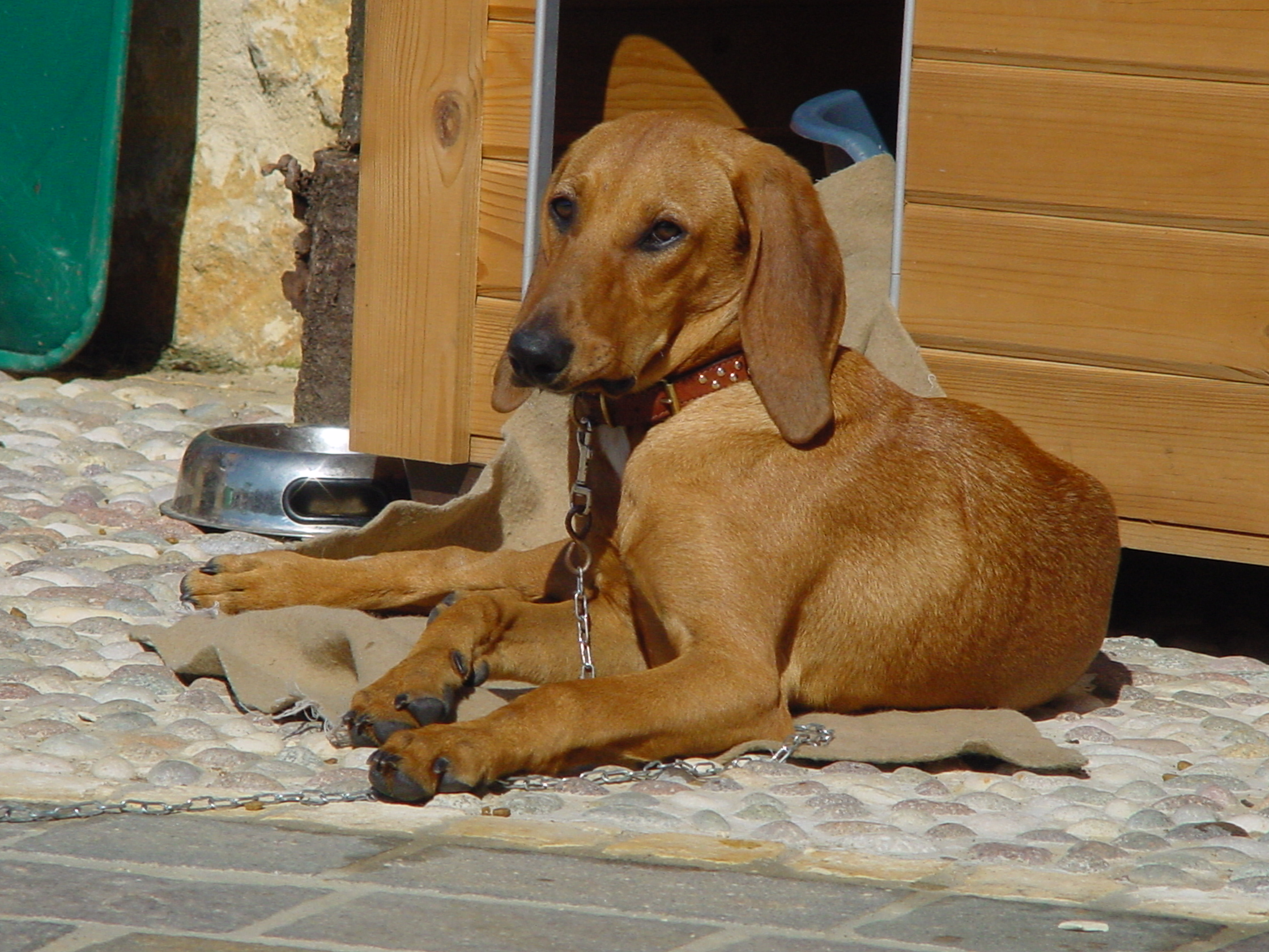 A dog: a male of Segugio italiano a pelo raso (fulvo)